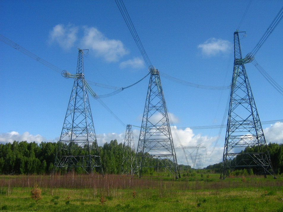 1150 kV power line in Chelyabinsk oblast